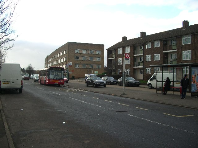 Hainault Housing. Shops and flats in Manford Way, part of the huge Hainault overspill development of the 1950s